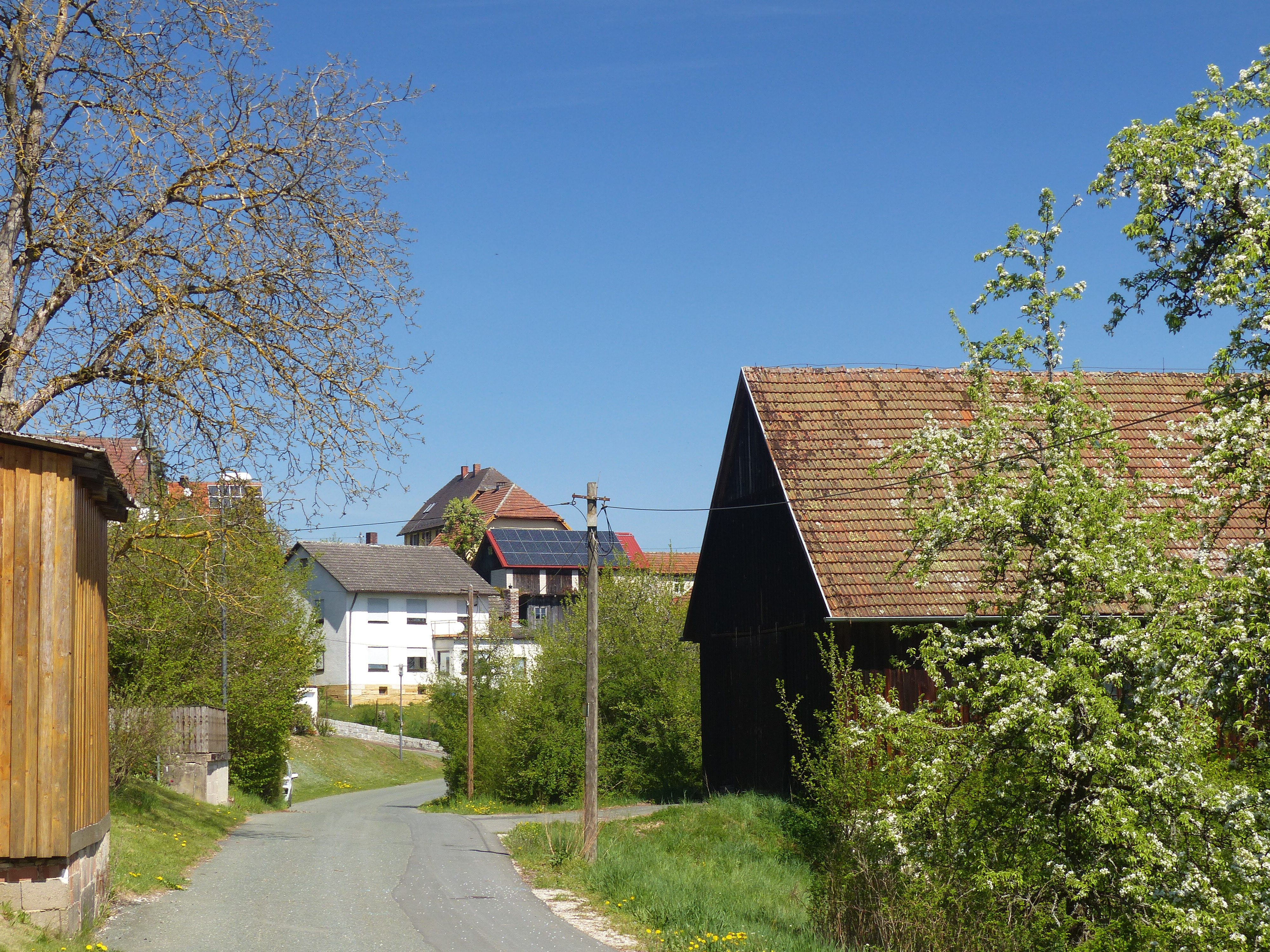 The village Hinterkleebach, a district of the municiplality of Hummeltal.